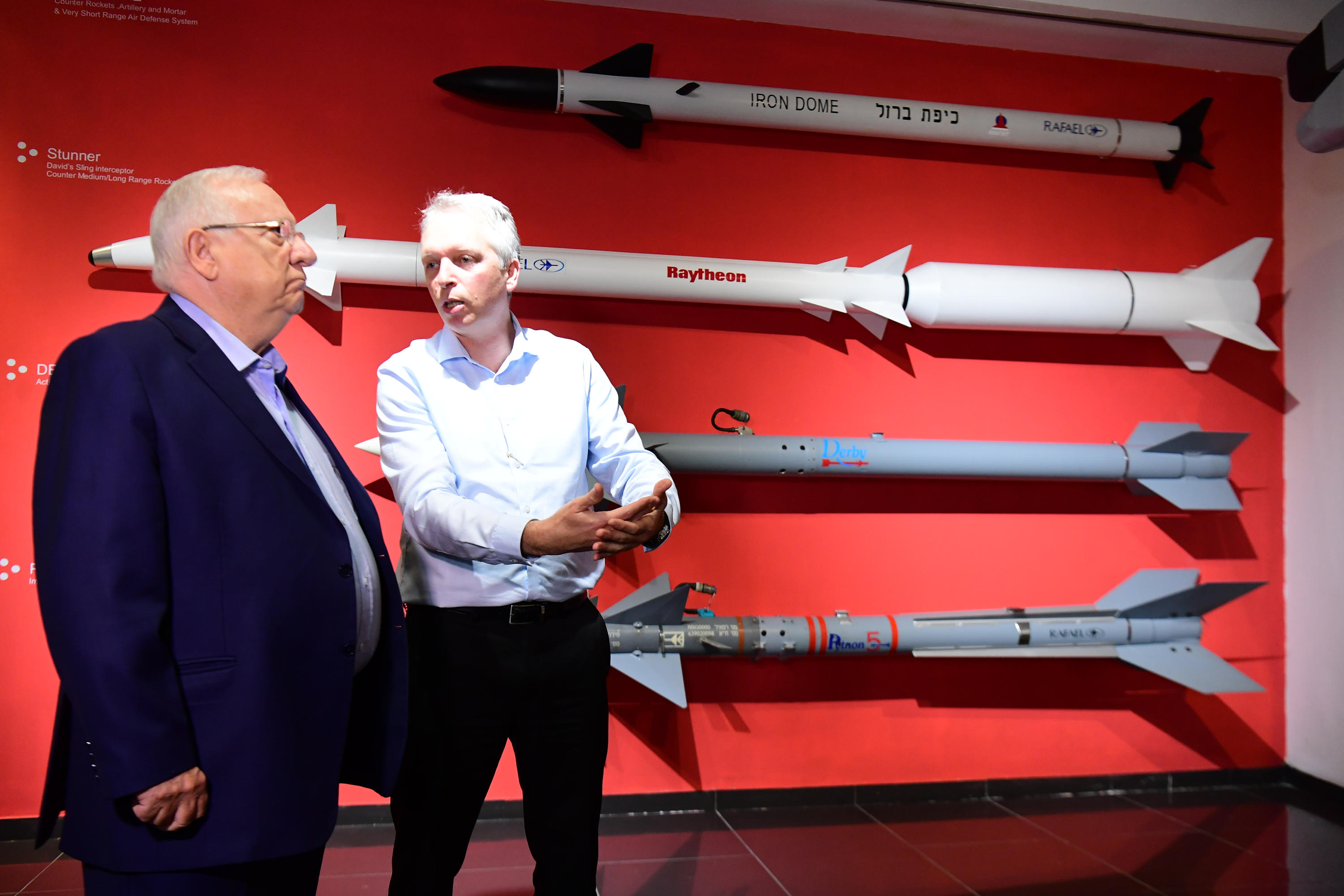 the President of Israel, Reuven Rivlin, visiting Rafael. He watched the systems developed by her: Iron Dome, David's Sling, Windbreaker and more. Tuesday, March 31, 2018. The missile shown here (top to bottom): Iron Dome, Stunner (David Sling), Derbi, Python 5.